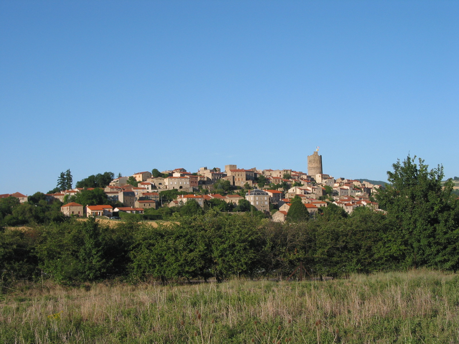 Montpeyroux (Puy-de-Dôme) (France), the medieval village